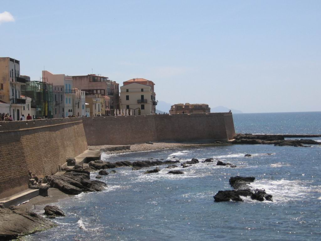 Alghero, Sardinia, Italy. Foto: Mihai Sorin Sirbu